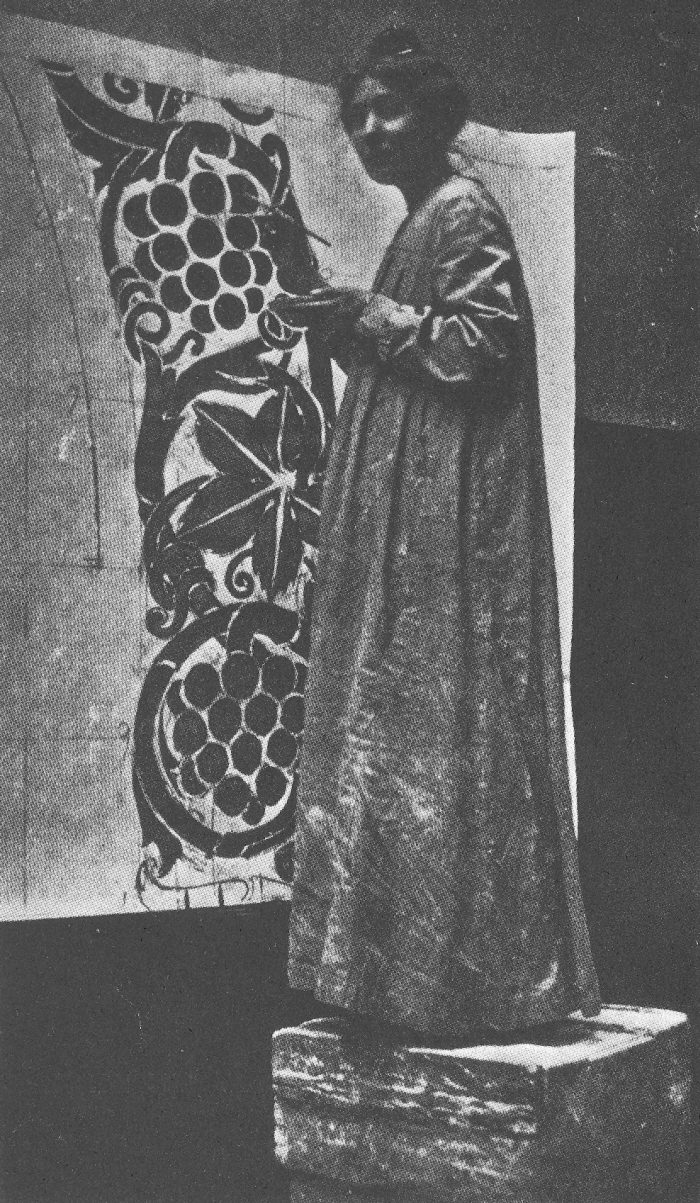 Sylvia Pankhurst creating decorations of the Prince's Skating Rink